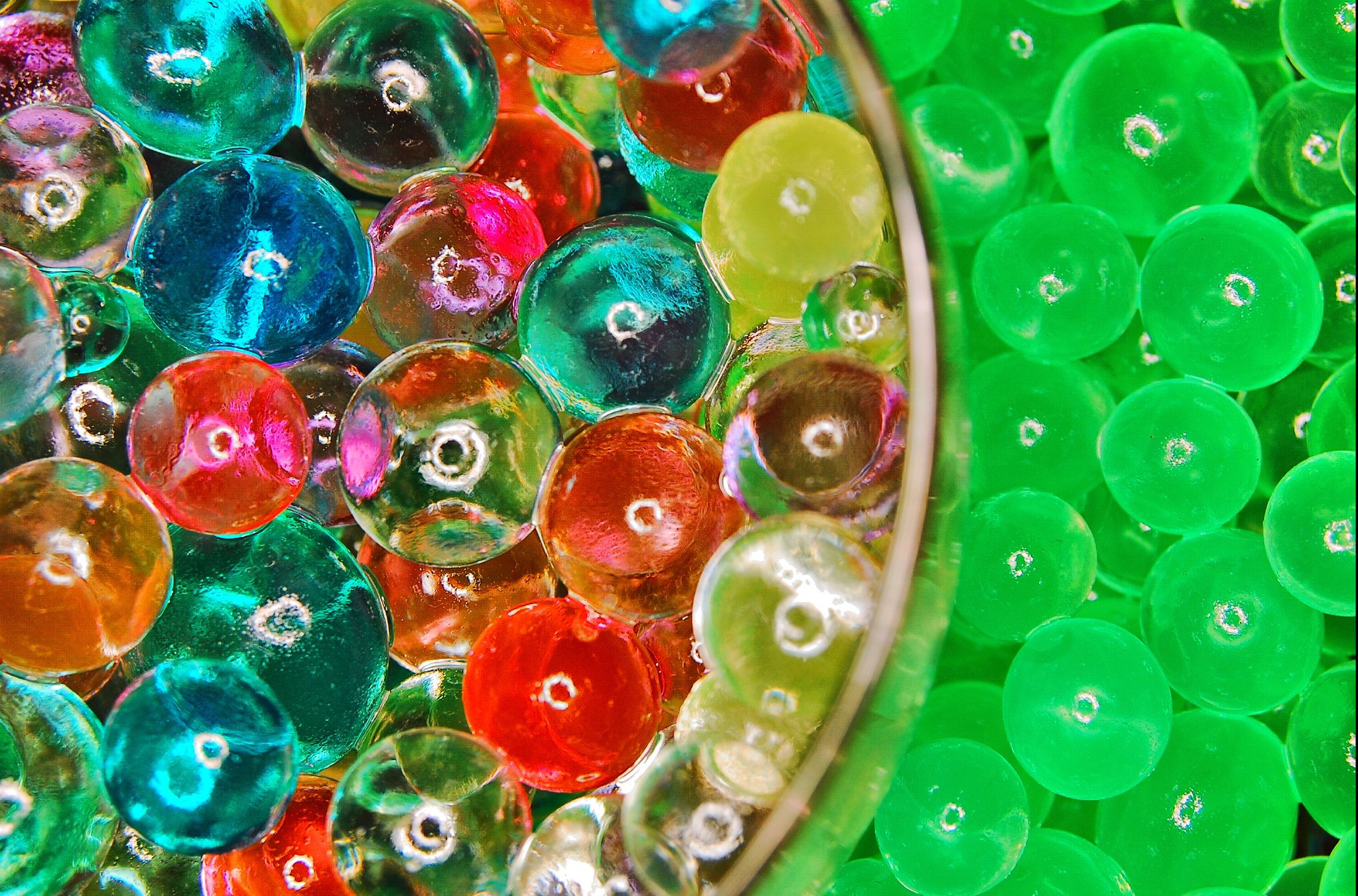 A sample of sodium polyacrylate, also known as "acrylic sodium salt polymer" (monomer: -CH2-CH(CO2Na)-). Commonly found in detergents, the polymer strand has the ability to absorb up to 400 times their weight in water, a property that is exploited for use in common household goods such as diapers as well as agricultural applications. This sample has already absorbed the maximum amount of water.